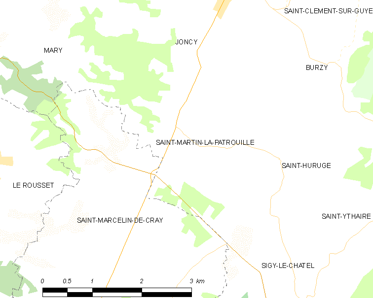 Map of French municipality